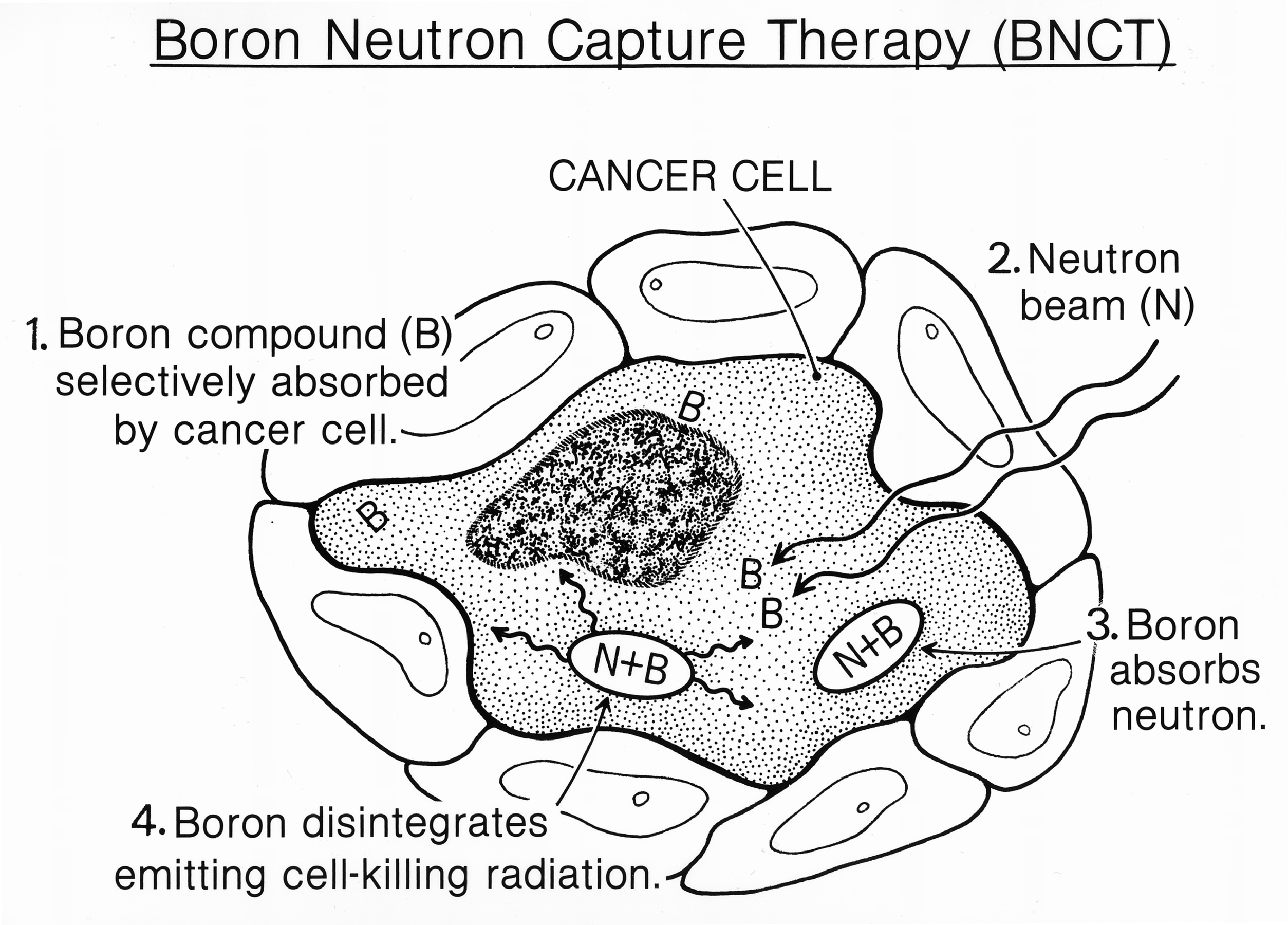 Title Boron Neutron Capture Therapy (BNCT) Illustration Description A type of treatment for cancer. 1) Boron compound (b) is selectively absorbed by cancer cell(s). 2) Boron beam (n) is aimed at cancer site. 3) Boron absorbs neutron. 4) Boron disintegrates emitting cancer-killing radiation. Topics/Categories Historical -- Graphics Treatment -- Radiation Therapy Type B&W, Illustration Source National Cancer Institute